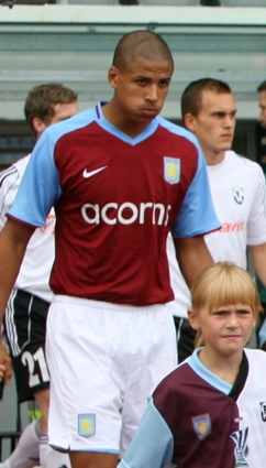 Curtis Davies before a match for Aston Villa against FH at Kaplakriki, Hafnarfjörður on 14 August 2008